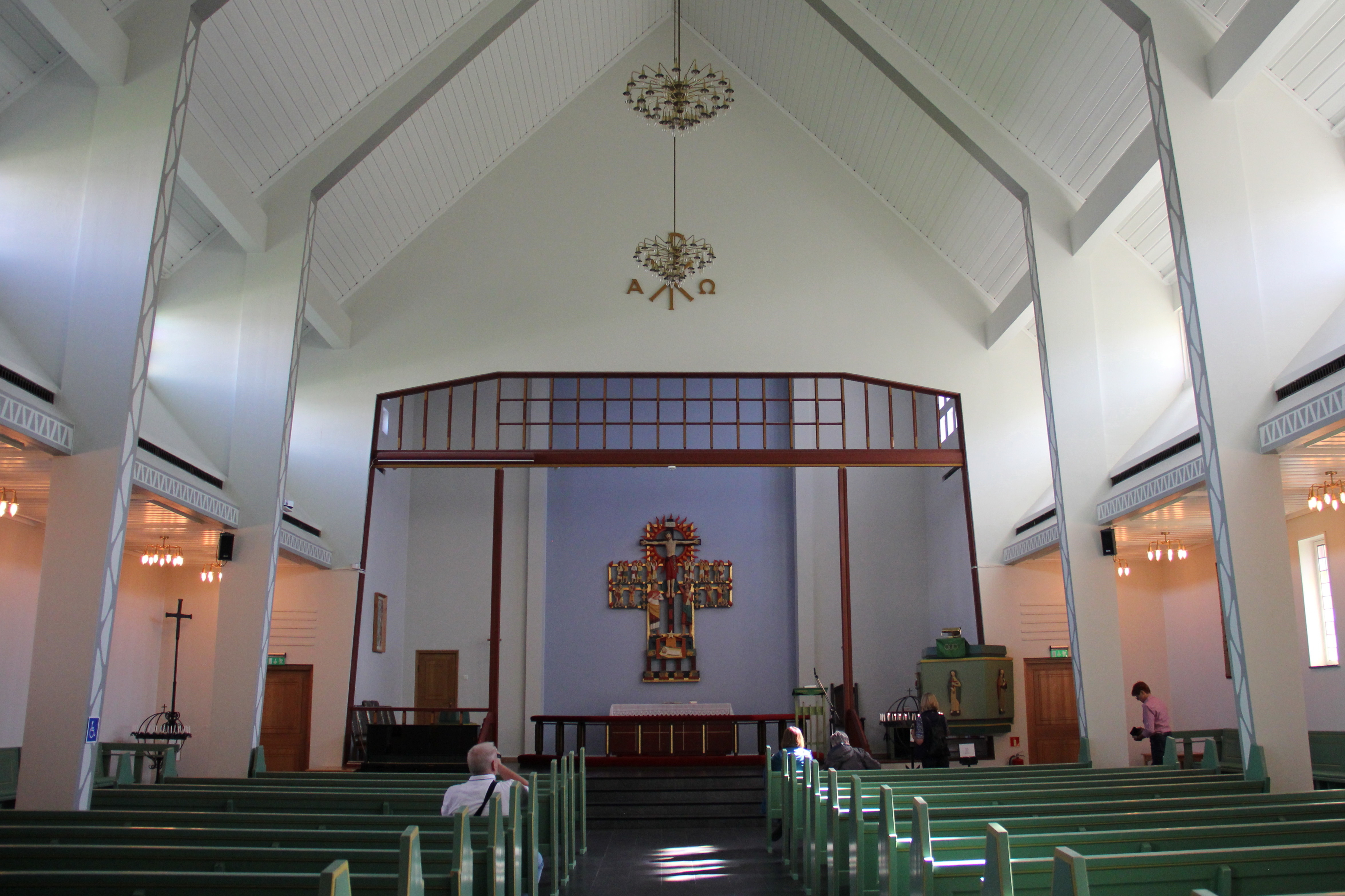 Kirkenes church, Kirkenes, Sør-Varanger, Norway. - Interior. - Altar wall.